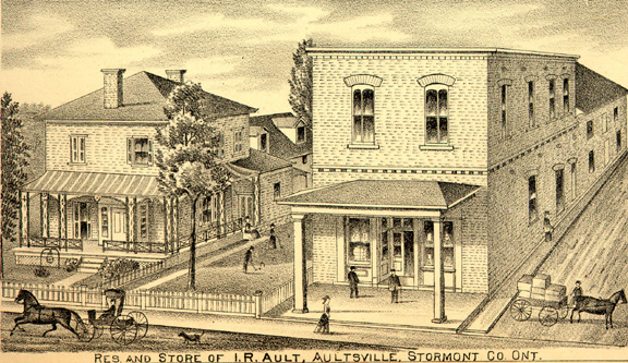 This sketch came from Illustrated historical atlas of the counties of Stormont, Dundas and Glengarry, Ont. Toronto: Belden & Co., 1879. and depicts Aultsville, Ontario.